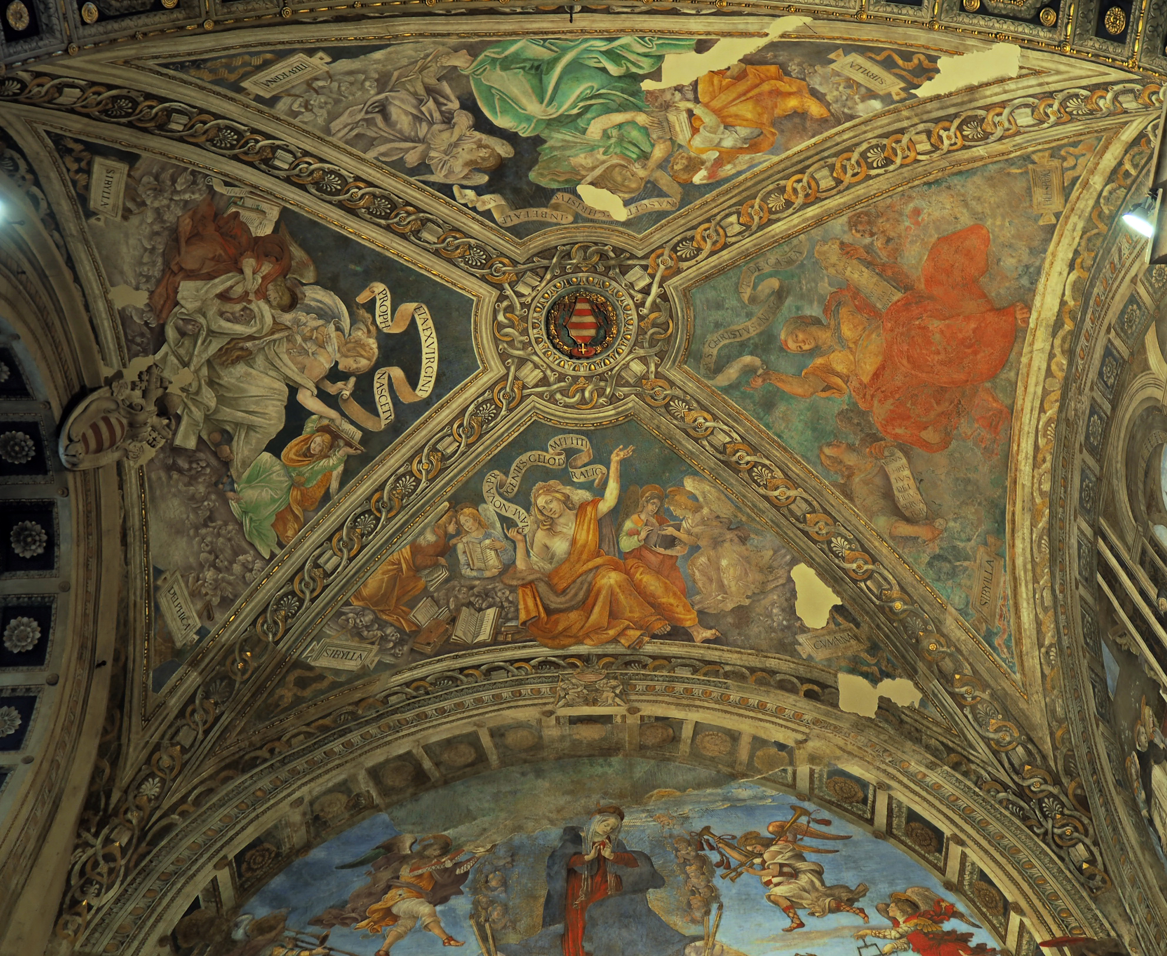 Santa Maria sopra Minerva (Rome); Carafa Chapel; Ceiling